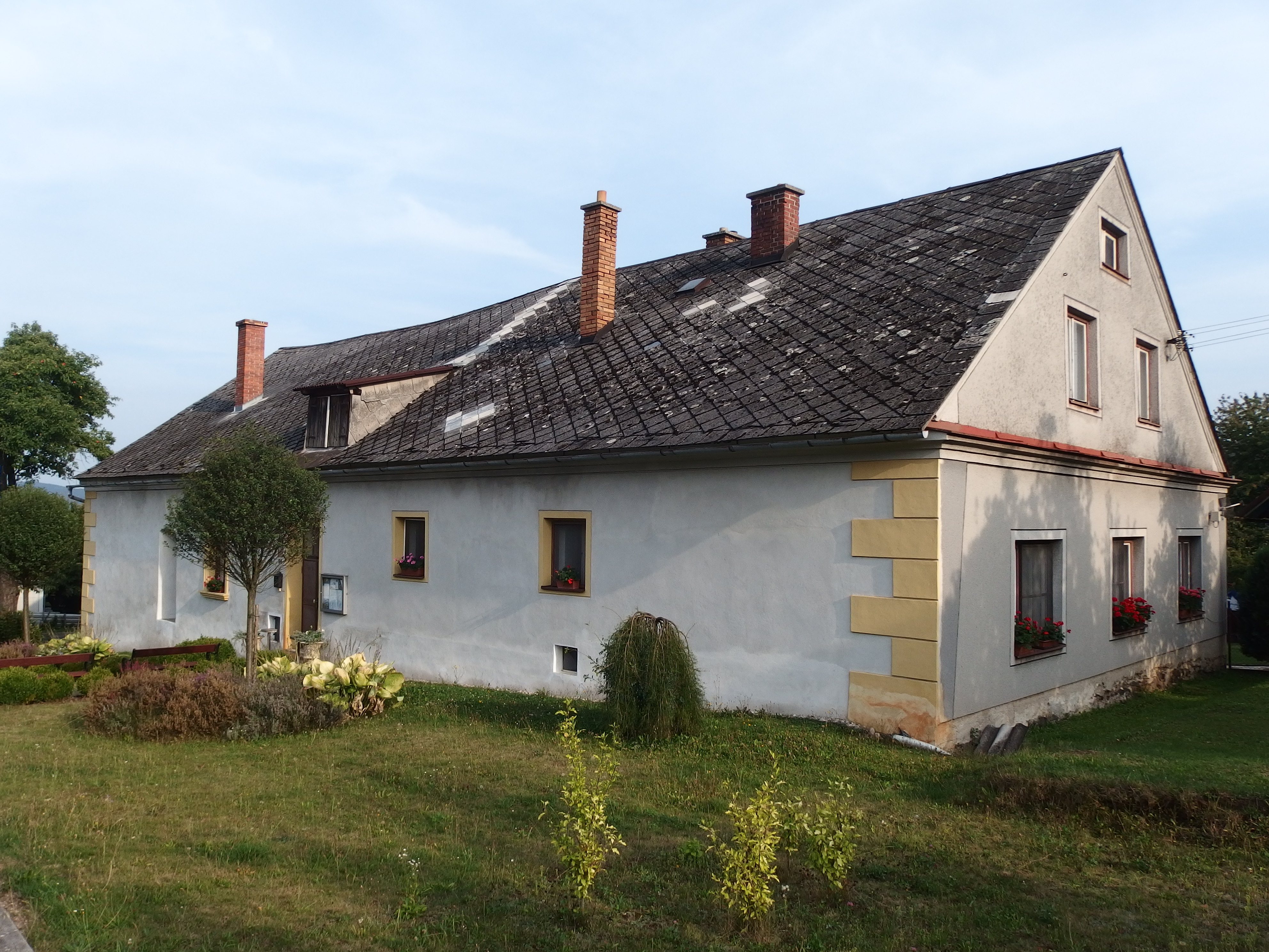 Nemile, Šumperk District, Czechia.